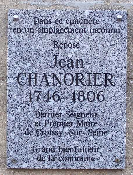 Commemorative sign of Jean Chanorier in the churchyard of Croissy-sur-Seine (Yvelines, France)